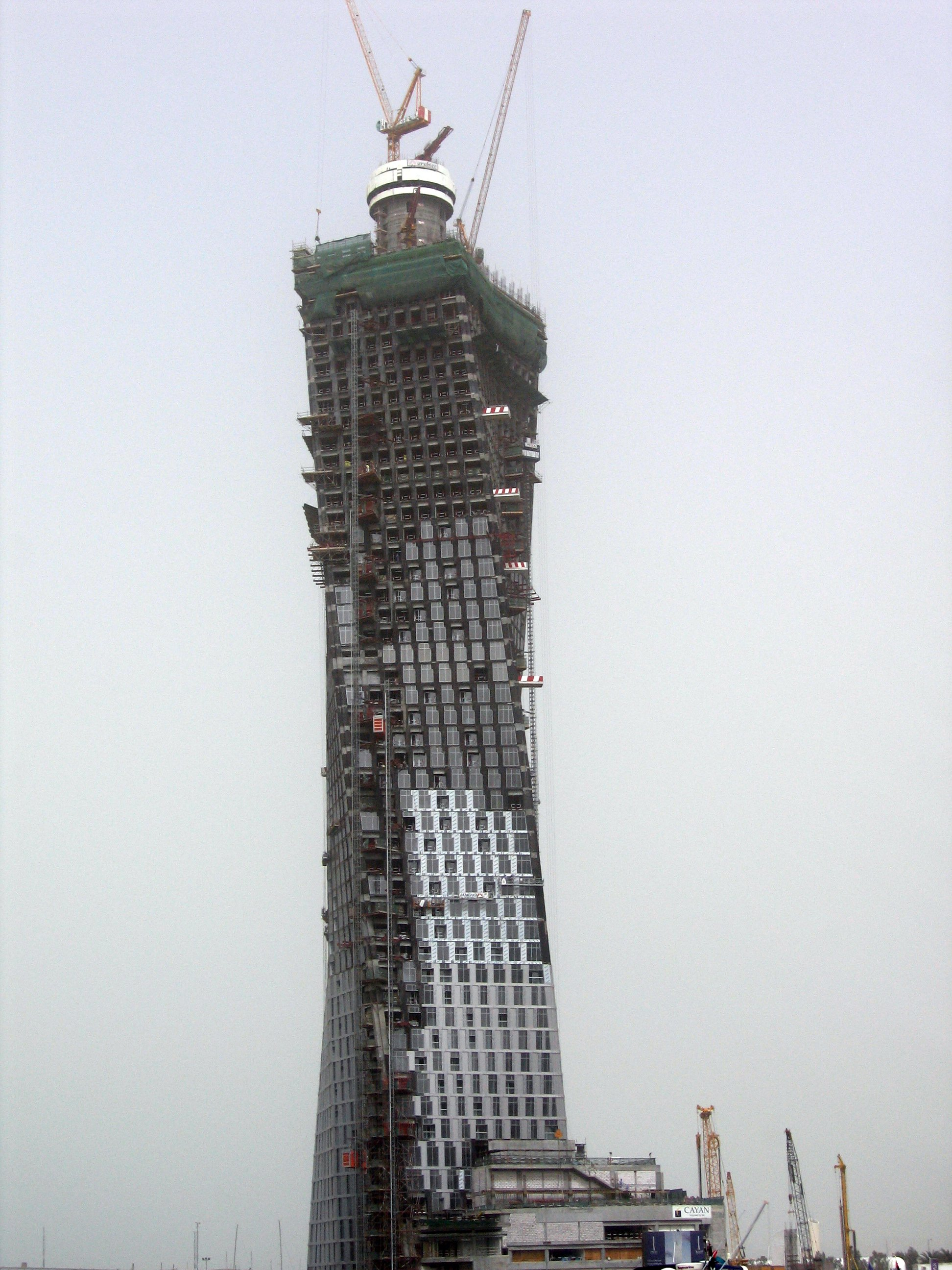 See: Cayan Tower, Cayan Tower See also Category:Twisted buildings and structures